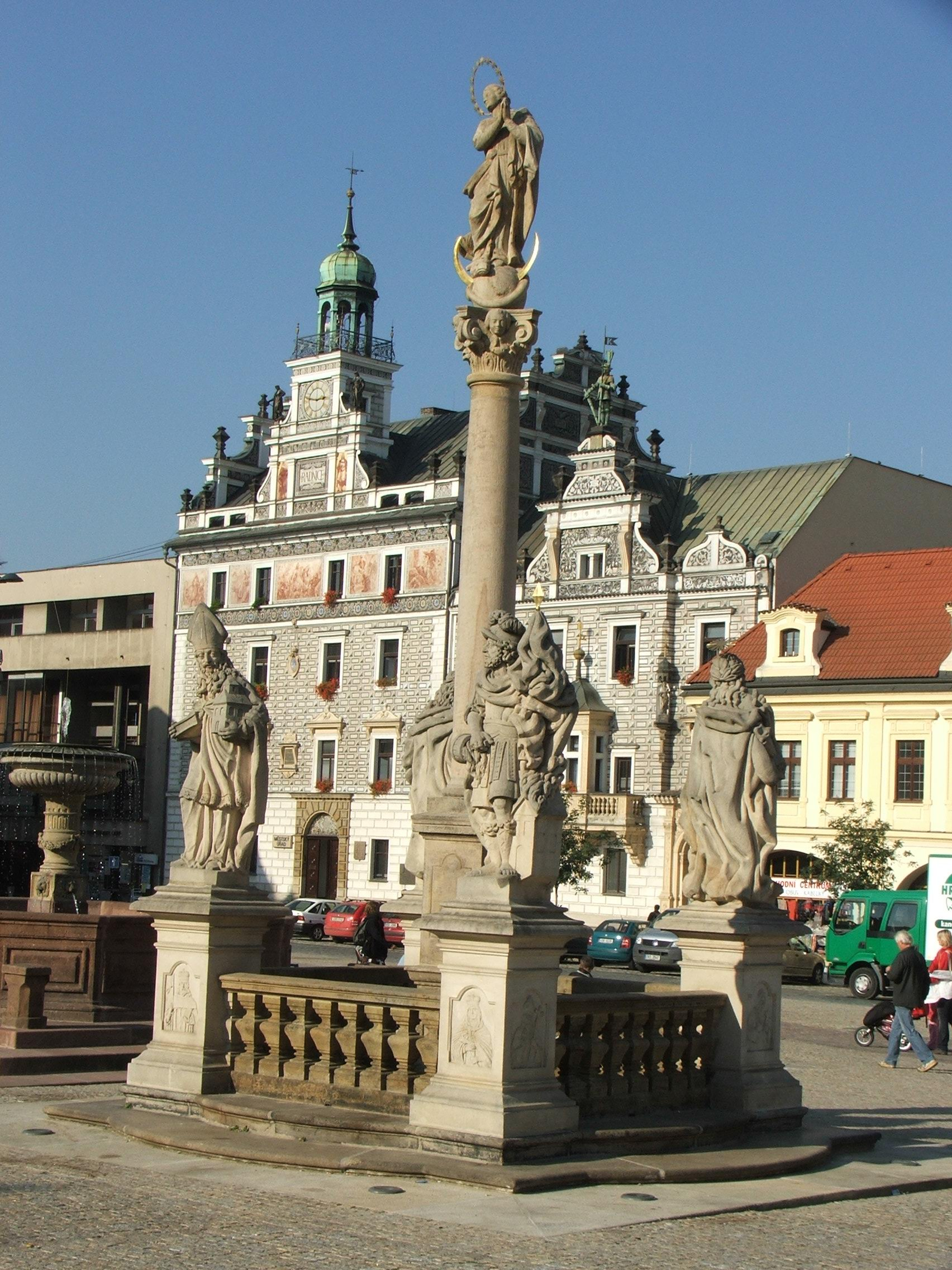 Kolín, Central Bohemia, Czechia, Baroque column erected in 1682.